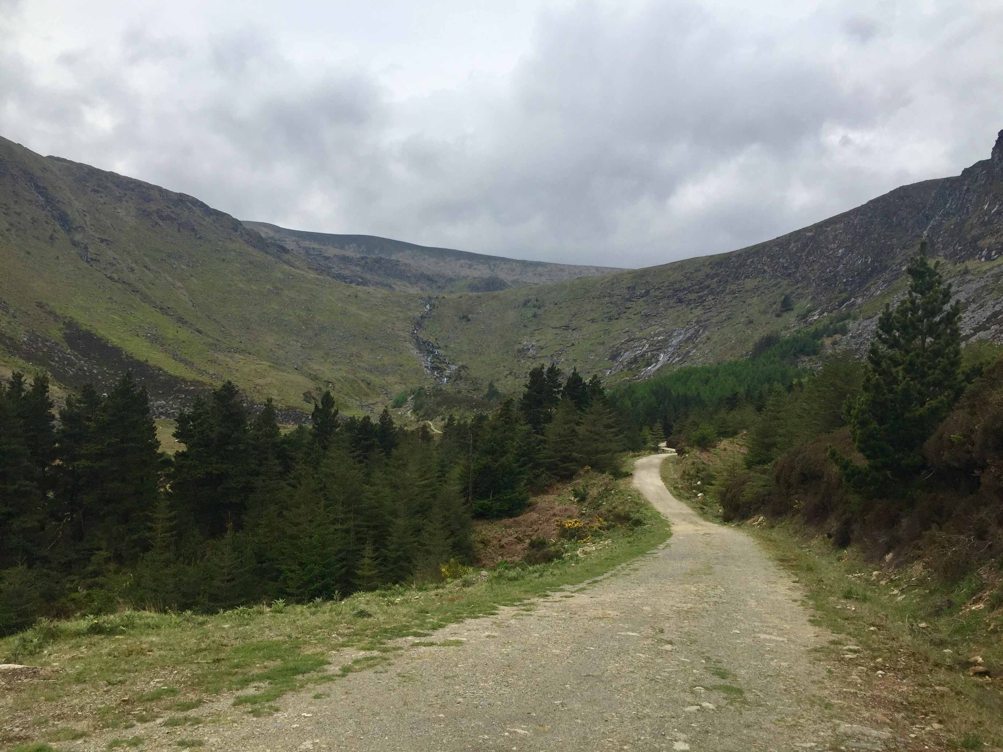 Summit of Lugnaquilla (back centre) seen from the start of the path up the Fraughan Rock Glen path (which starts beside the An Oige Hostel in Glenmalure).